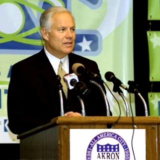 Don Plusquellic, Mayor of Akron, Ohio, holds a speech at Perkins Activities Central.